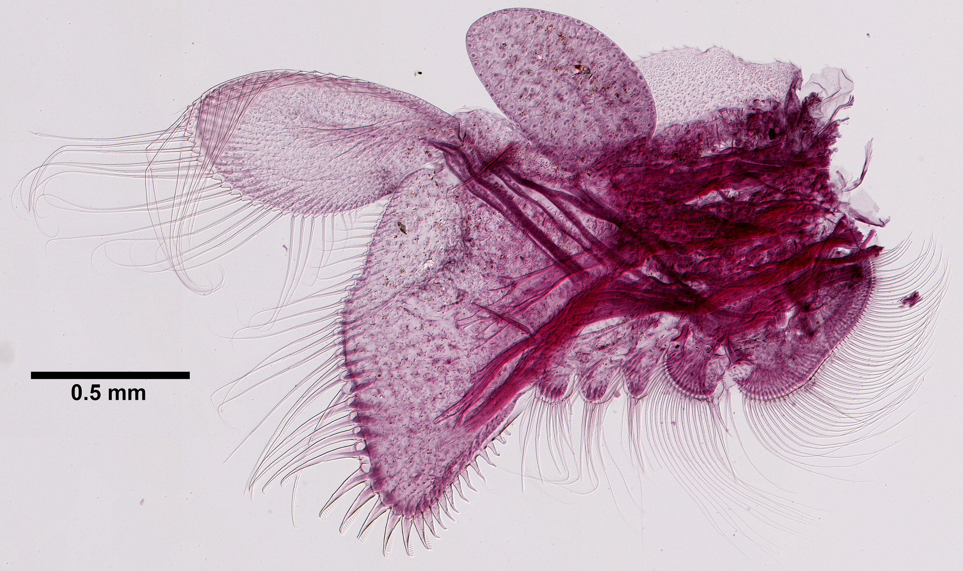 PRESERVED_SPECIMEN; MALE; ; 70% alc.; microslide; PARATYPE. See: Hegna, Thomas A. & Lazo-Wasem, Eric A. 2010. Branchinecta brushi n. sp. (Branchiopoda: Anostraca: Branchinectidae) from a Volcanic Crater in Northern Chile (Antofagasta Province): A New Altitude Record for Crustaceans. Journal of Crustacean Biology. 30 (3): 445-464.; CSBR Slide Grant Image 2015; IZ number 24277; lot count 1; specimen; Microslide 01, balsam, phyllopod 1 left; Microslide 01, balsam, penes; Microslide 01, balsam, caudal rami; Microslide 02, balsam, phyllopod 2 left; Microslide 02, balsam, phyllopod 3 le; 1988-12-13T00:00:00Z